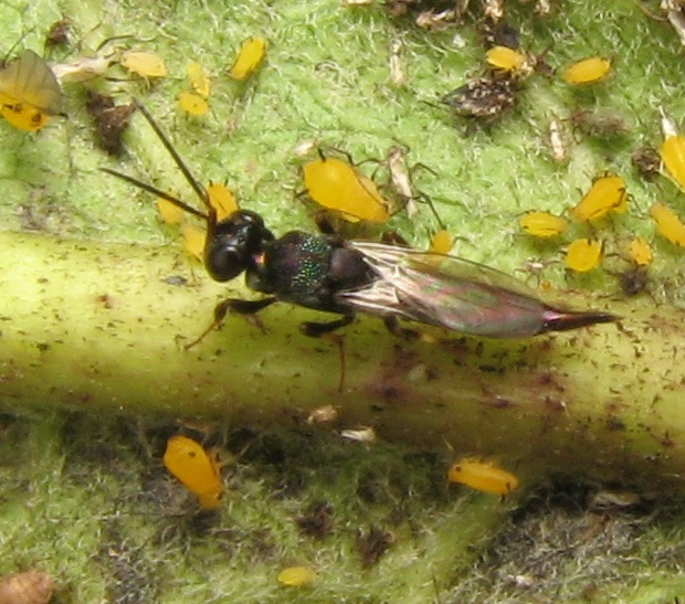 Chalcid wasp, Balcha indica, on milkweed. Churchville Nature Center, Bucks County, Pennsylvania, USA.